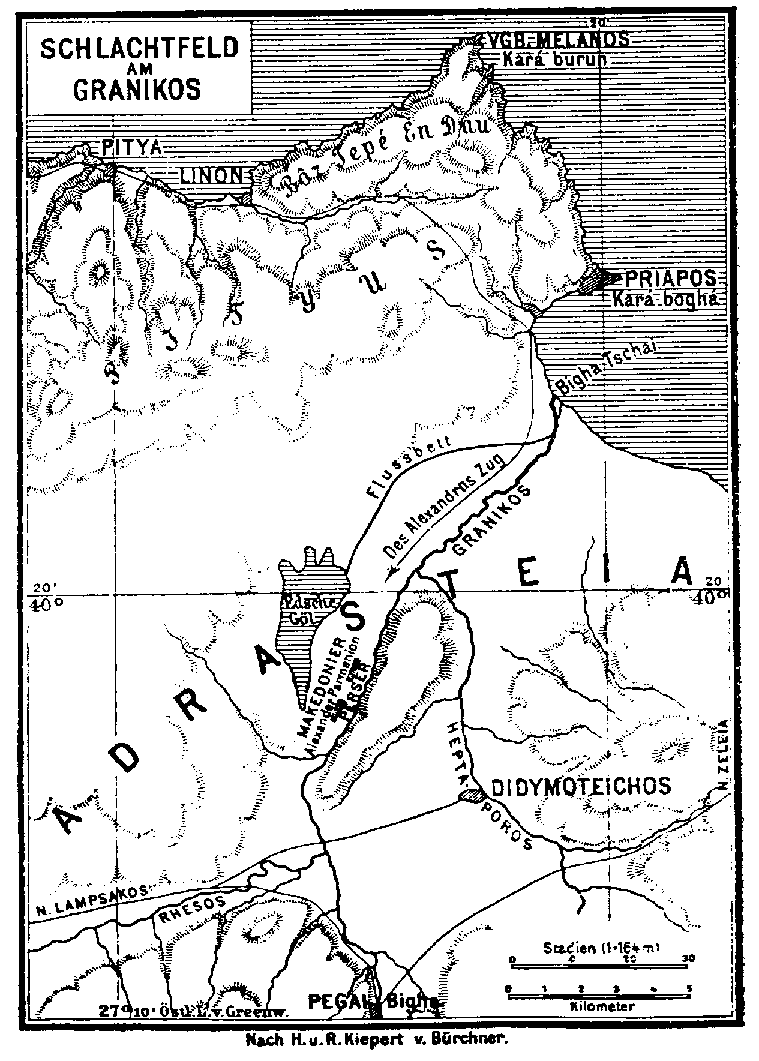 The Battle of the Granicus (334 BC)